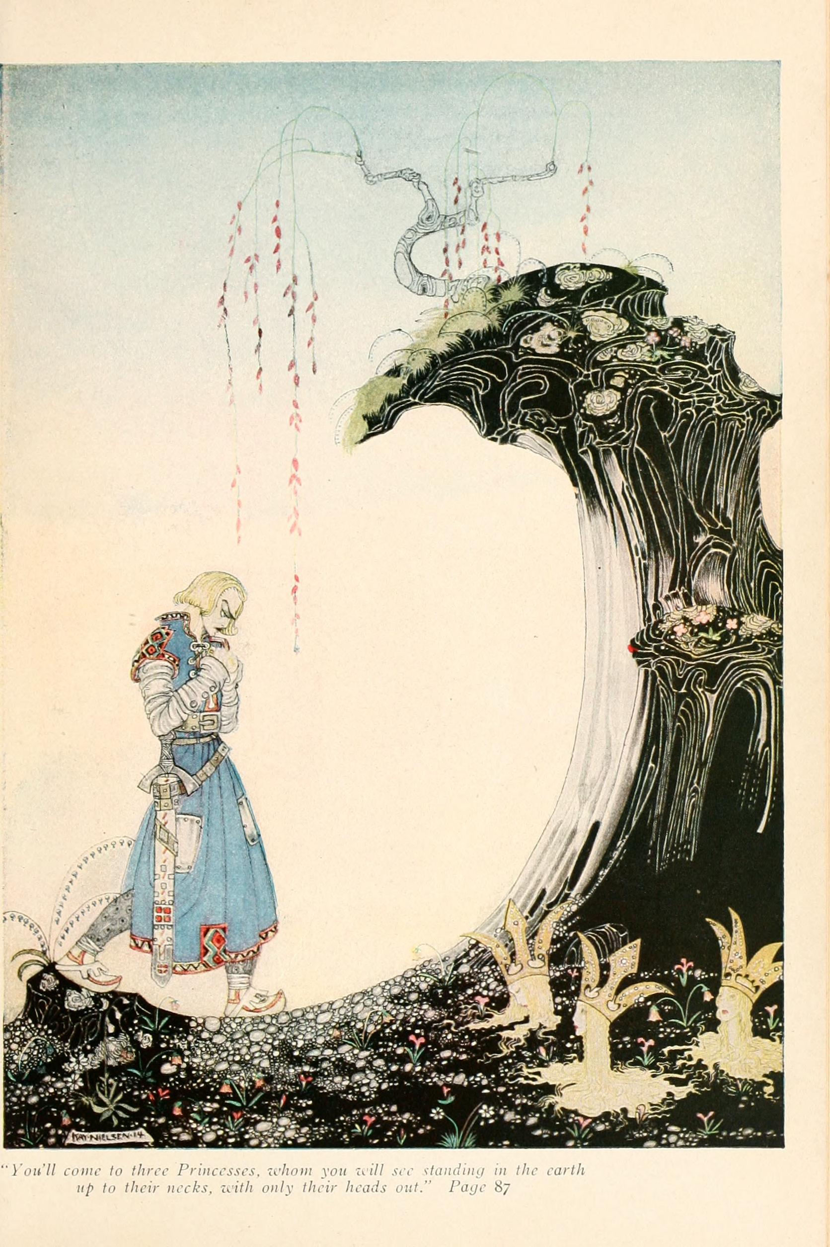 Title: East of the sun and west of the moon : old tales from the North Year: 1922 (1920s) Authors: Asbjørnsen, Peter Christen, 1812-1885 Moe, Jørgen Engebretsen, 1813-1882 Dasent, George Webbe, Sir, 1817-1896 Nielsen, Kay Rasmus, 1886-1957 Subjects: Fairy tales Folklore -- Norway Publisher: New York : G.H. Doran Text Appearing Before Image: d set them down in the earth there; butbefore they had lived in the castle up among the trees. Now, she said, you must go into that castle, andlet the Trolls whip you each one night for each of us.If you can bear that, youll set us free. Well, the lad said he was ready to try. When you go in, the Princess went on to say,youll sge two lions standing at the gate; but if youllonly go right in the middle between them theyll do youno harm. Then go straight on into a little dark, room,and make your bed. Then the Troll will come to whipyou; but if you take the flask which hangs on the wall,and rub yourself with the ointment thats in it, whereverhis lash falls, youll be ns sound as ever. Then grasp thesword that hangs by the side of the flask and strike theTroll dead. Yes, he did as the Princess told him; he passed in themidst between the lions, as if he hadnt seen them, andwent straight into the little room, and there he lay downto sleep. The first night there came a Troll with three 88 J^ J Text Appearing After Image: Youll conic to tlircc Princesses, zihoni you tii// ,«ir sfamiinii in the cariliup to their necks, tvith only their lieads out, Payc 87 9^4 9^g^ c^A c^S^ 5^^ ff^^ S^5 5^5 crS^ 5^5 5^5^ heads and three rods, and whipped the lad soundly; buthe stood it till the Tro// was done; then he took theflask and rubbed himself, and grasped the sword and slewthe Tro//. So, when he went out next morning, the Princessesstood out of the earth up to their waists. The next night twas the same story over again, onlythis time the Tro// had six heads and six rods, and hewhipped him far worse than the first; but when he wentout next morning